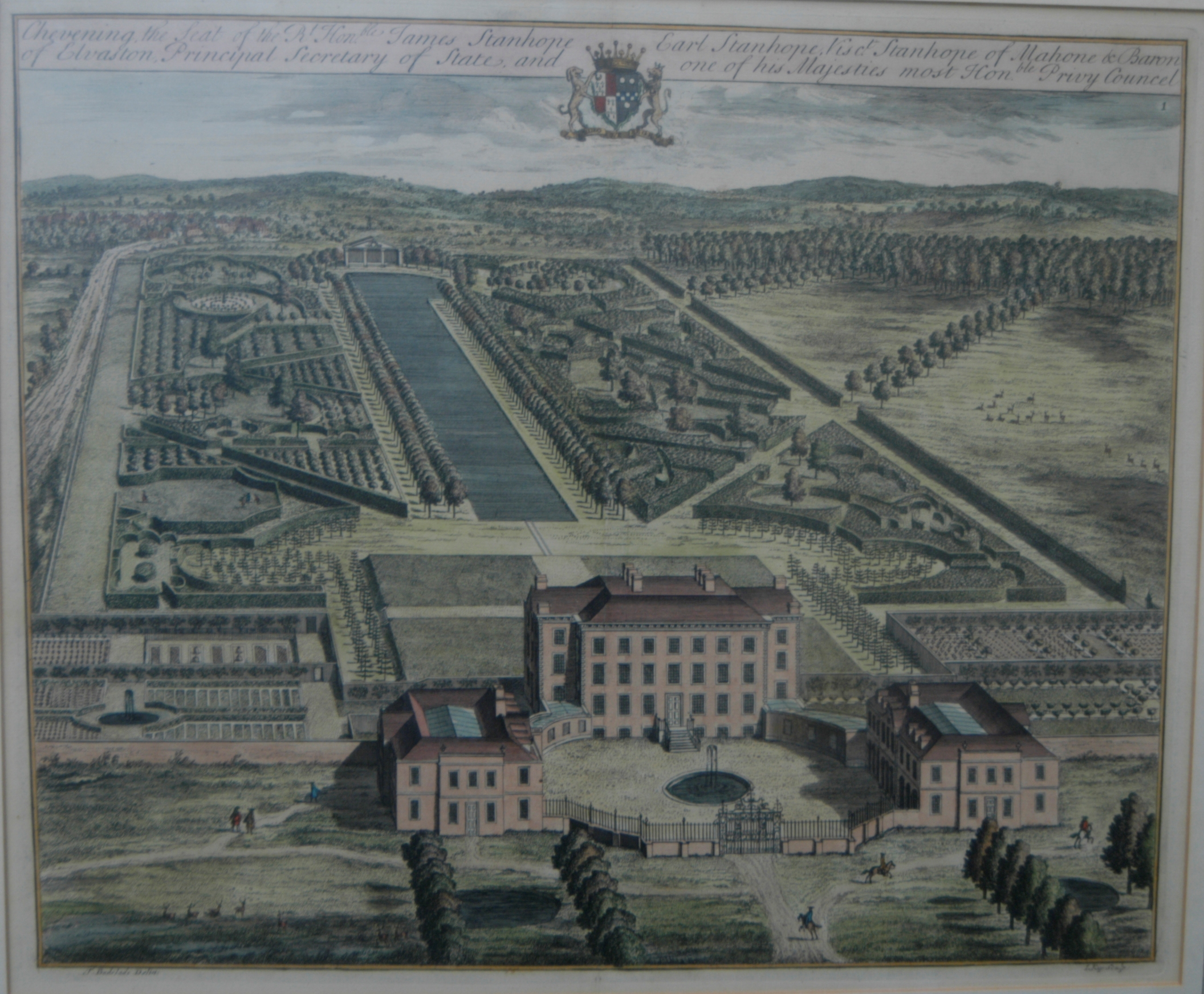 My photograph (Rodolph (talk) 01:30, 13 March 2014 (UTC)) of an engraving of Chevening by Johannes Kip (d.1722) after Thomas Badeslade (d.1742), published (in History of Kent) 1719 by John Harris. (Jan Kip, (1652/53 Amsterdam - 1722). Print entitled: Chevening, the Seat of the Rt. Honble. James Stanhope Earl Stanhope, Visct Stanhope of Mahone & Baron of Elvaston, Principal Secretary of State, and one of his Majesties most Honble. Privy Councel, published: in John Harris' History of Kent, London, 1719.